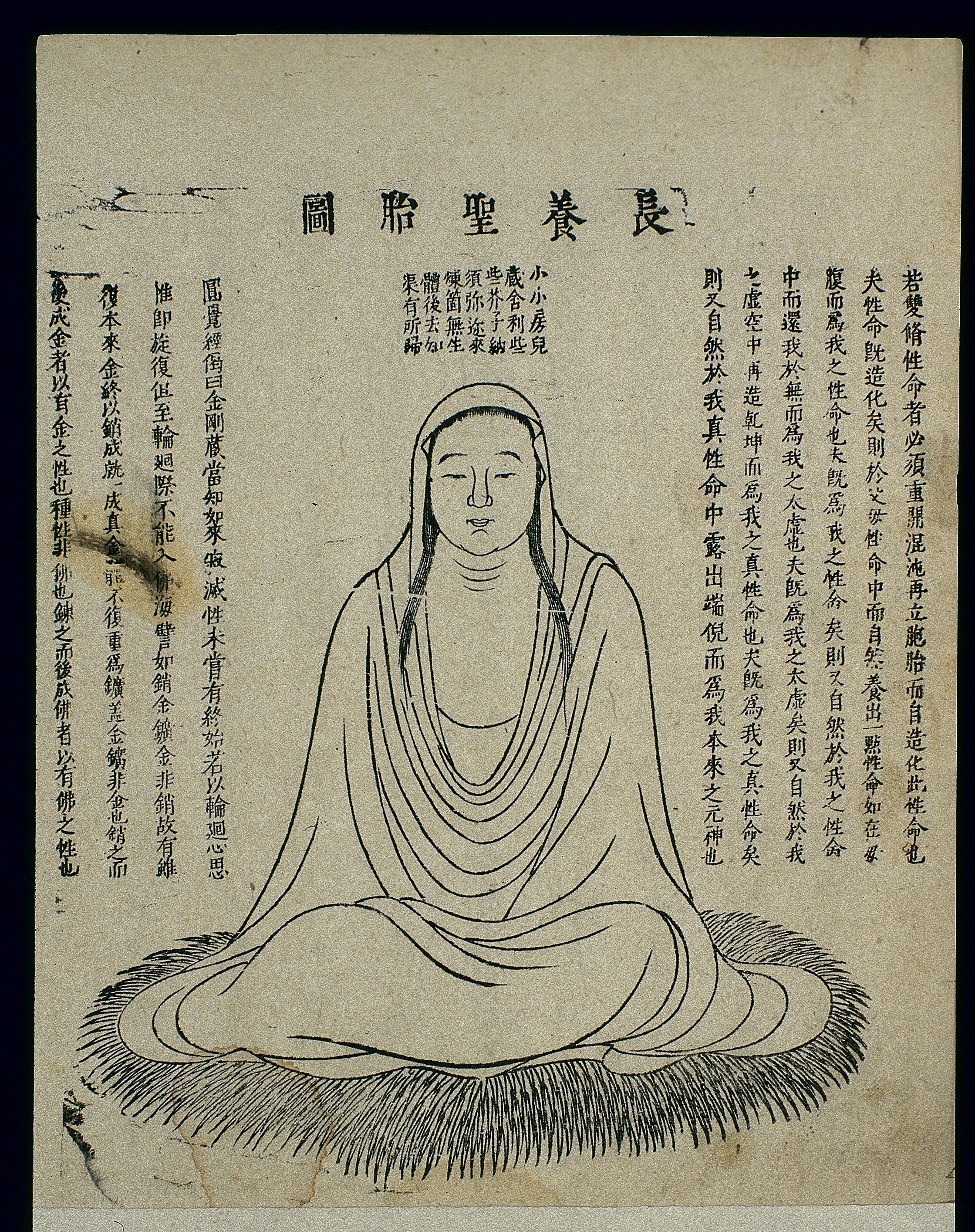 Woodcut illustration of the practice called 'Nourishing and growing the sacred embryo' fromXingming guizhi(Pointers on Spiritual Nature and Bodily Life) by Yi Zhenren, a Daoist text on internal alchemy published in 1615 (3rd year of the Wanli reign period of Ming dynasty). The Sacred Embryo (shentai)is a term from Daoist internal alchemy. It refers to spirit and Qi condensing and combining to form Elixir (dan).(Cataloguing incomplete) Wellcome Images Keywords: Daoism; Medicine, Chinese Traditional; Internal alchemy; Qigong